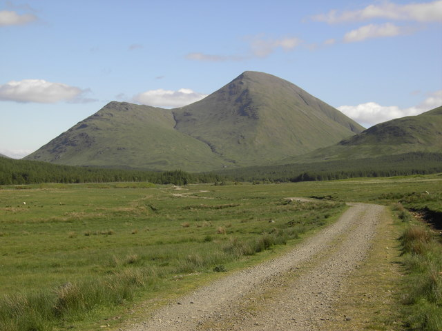 Glen Forsa Looking up Glen Forsa towards Beinn Talaidh.